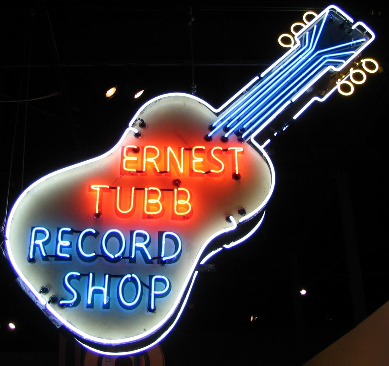 The original Ernest Tubb Record Shop sign from the Nashville, Tennessee store on Broadway. On the Temporary Exhibit at the Tennessee State Museum on the roots of country music March 22, 2006.